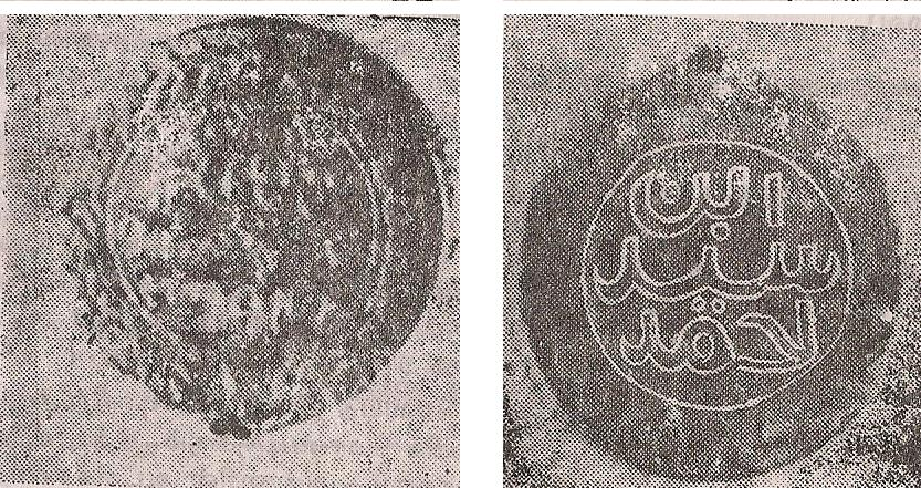 Coins